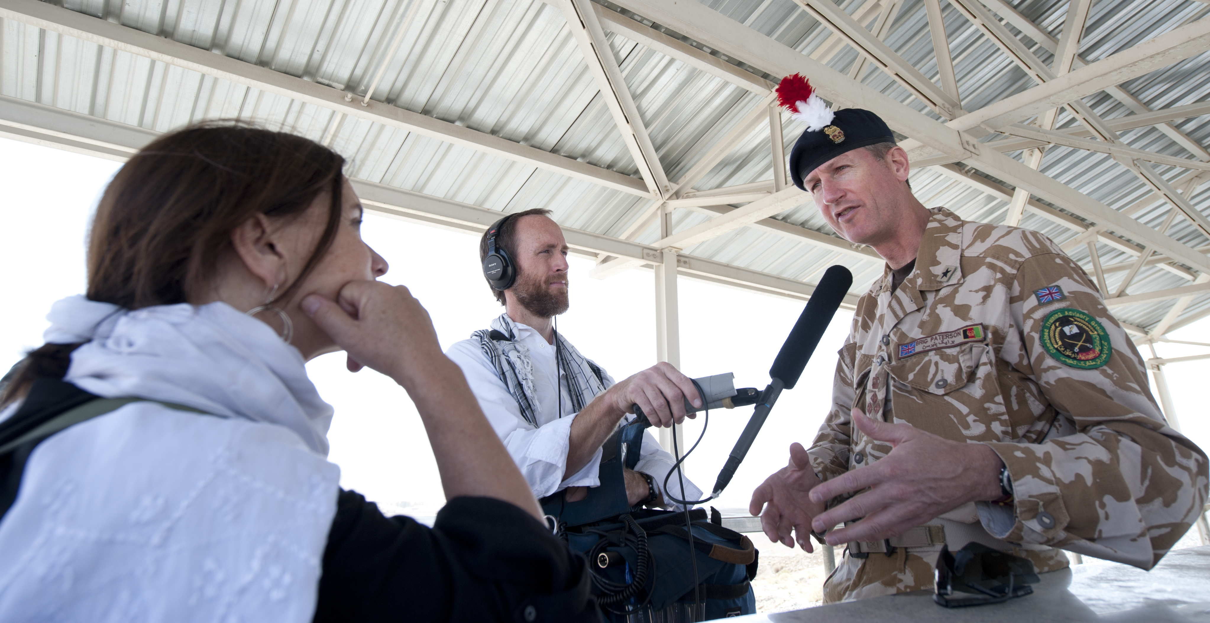 At right, British Brig. Gen. David Paterson, commander of the Combined Training Advisory Group - Army, responds to questions from NPR's Renee Montagne, far left, regarding Afghan National Army training. Montagne visited Kabul Military Training Center and the Consolidated Fielding Center here Sept. 14, 2010 to gain better insight into current ANA capability. The general explained that while the coalition effort could use more trainers, the ANA has greatly increased its ability to train and educate its own. CTAG-A is headquartered at Camp Eggers, Kabul, Afghanistan. (Photo by G. A. Volb)